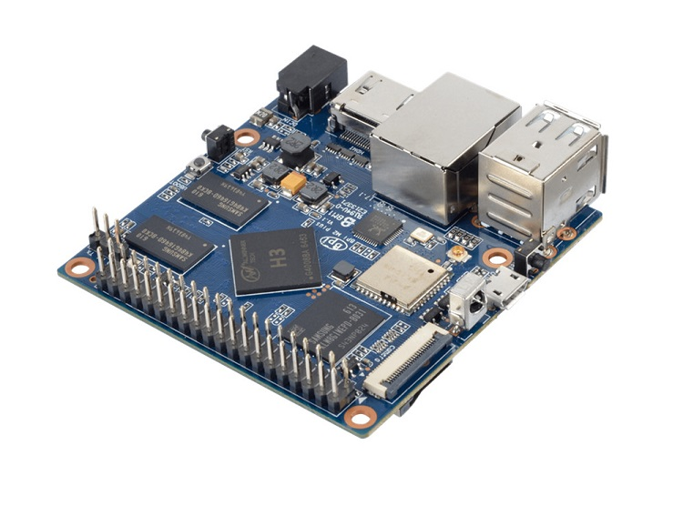 Banana pi BPI-M2+